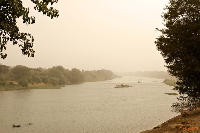 The Faleme River near Toumboura in Senegal